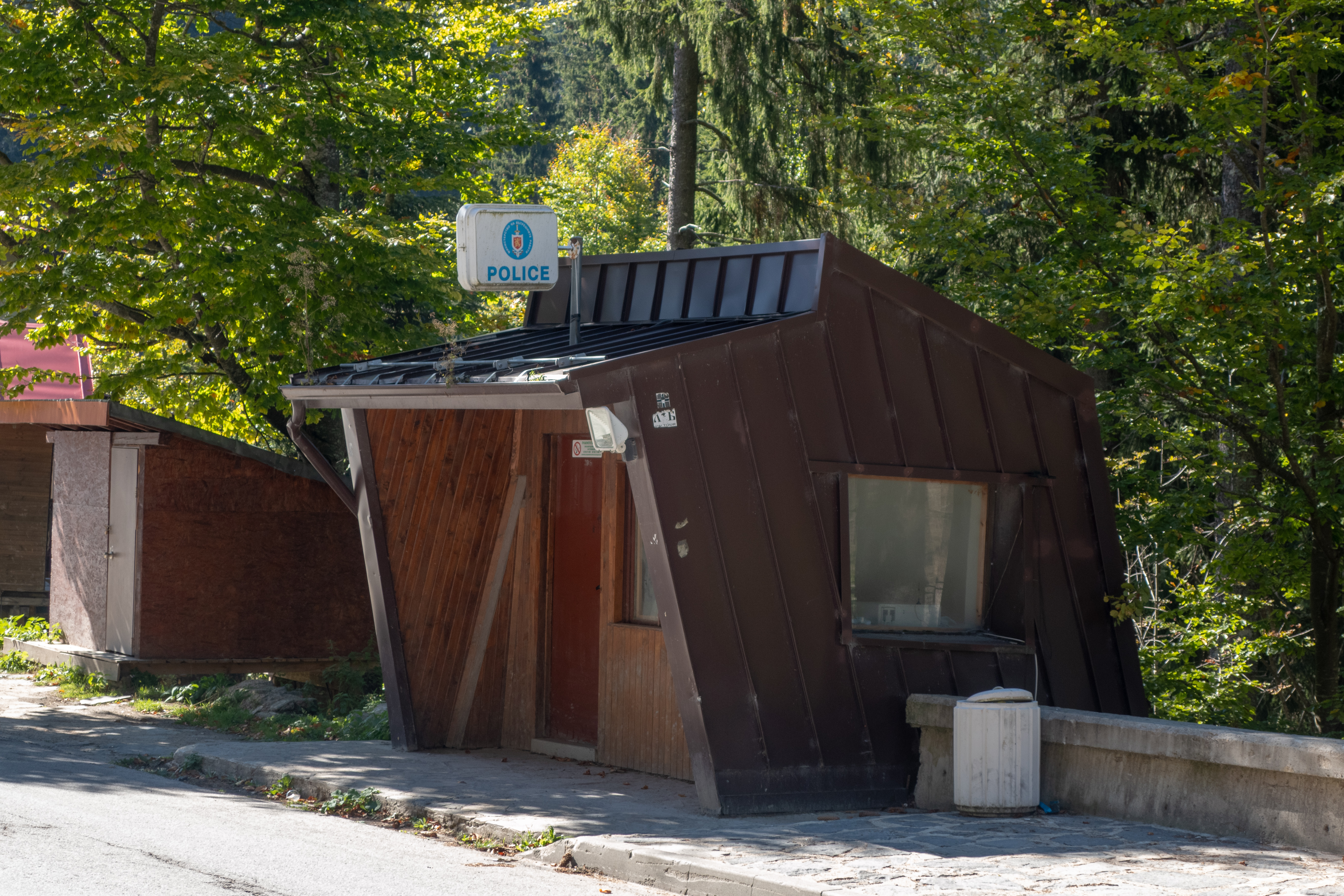 Pamporovo